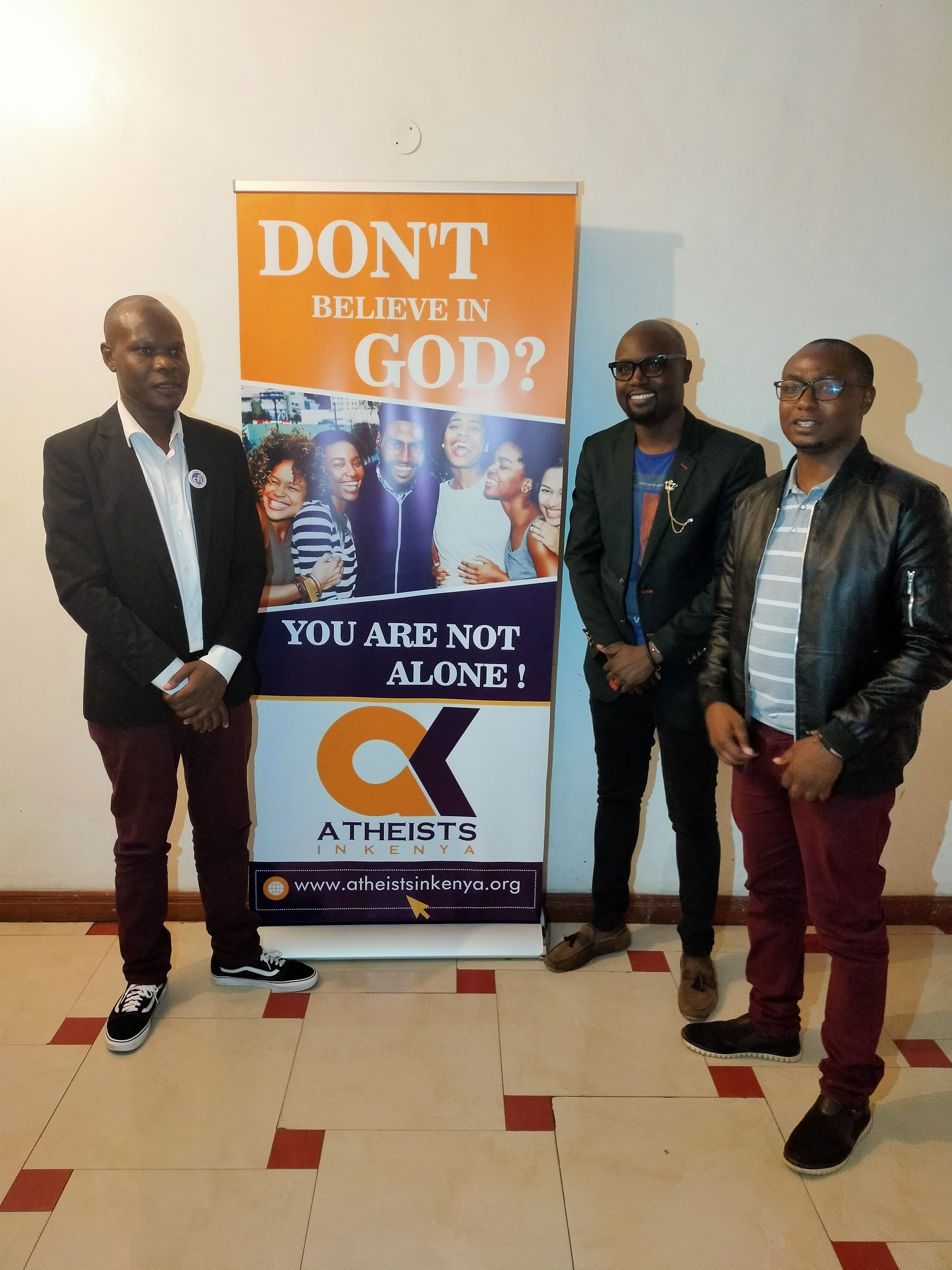 Atheists meeting in Nairobi, Kenya in 25th January, 2020 at Hotel Metro, Koinange Street, Nairobi.